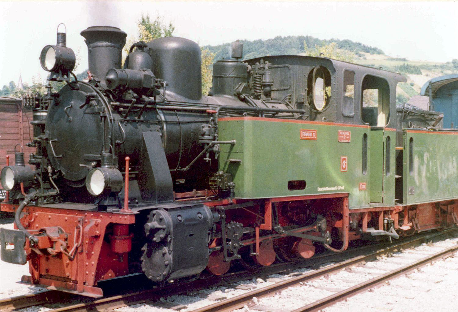 narrow gauge steam locomotive "Frank S" (built by Henschel with s/n 25983 in 1941) of type HF 110 C as historic locomotive on the Jagst valley railway in Dörzbach.